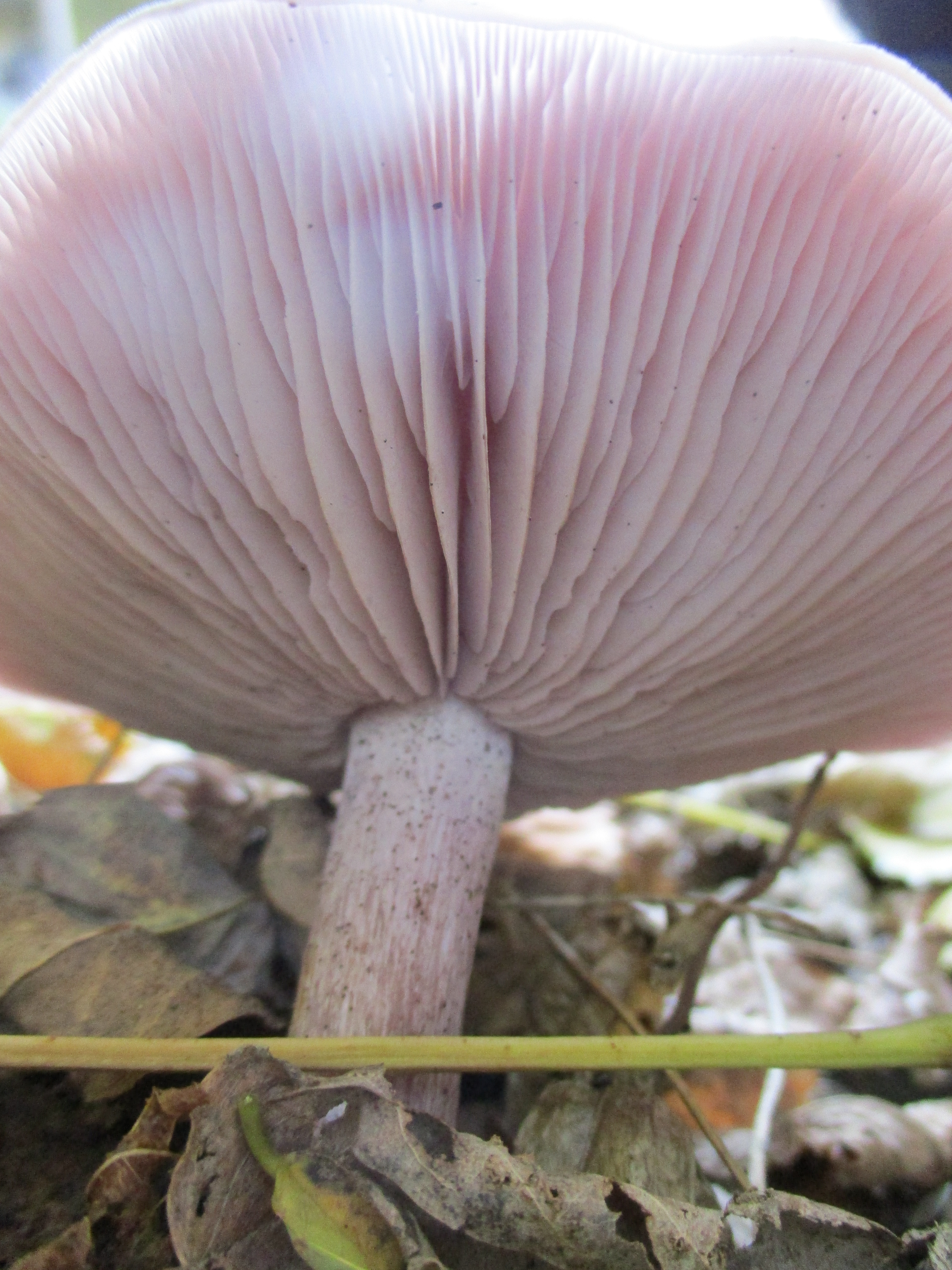 Agaricales, gilled mushroom